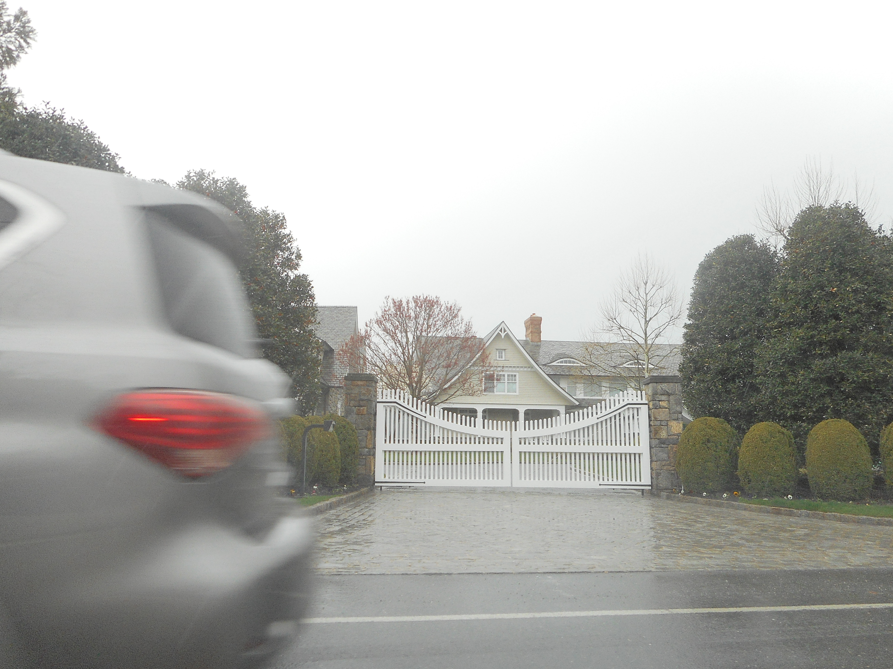 The N. J. Felix House, an NRHP-listed upper crust beach house in Asharoken, New York. While less extravagant than the mansions built along the North Shore of Long Island at the time, it's still bigger than your average beach bungalow. Unfortunately, with so much upscale private property along the strip of land known as Asharoken, it was difficult to get a good shot without the risk of rubbing local residents and authority the wrong way.